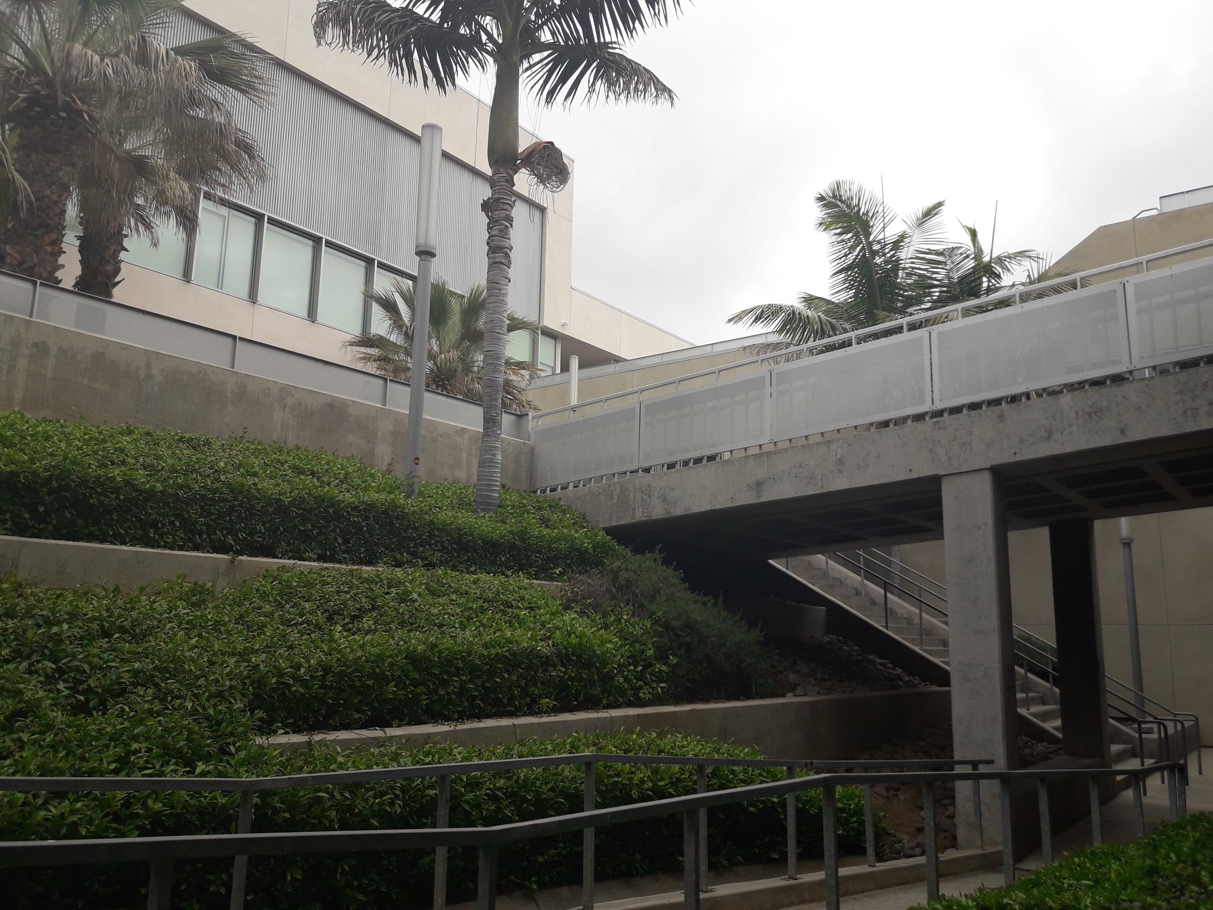 Cloudy day at Dominguez Hills.